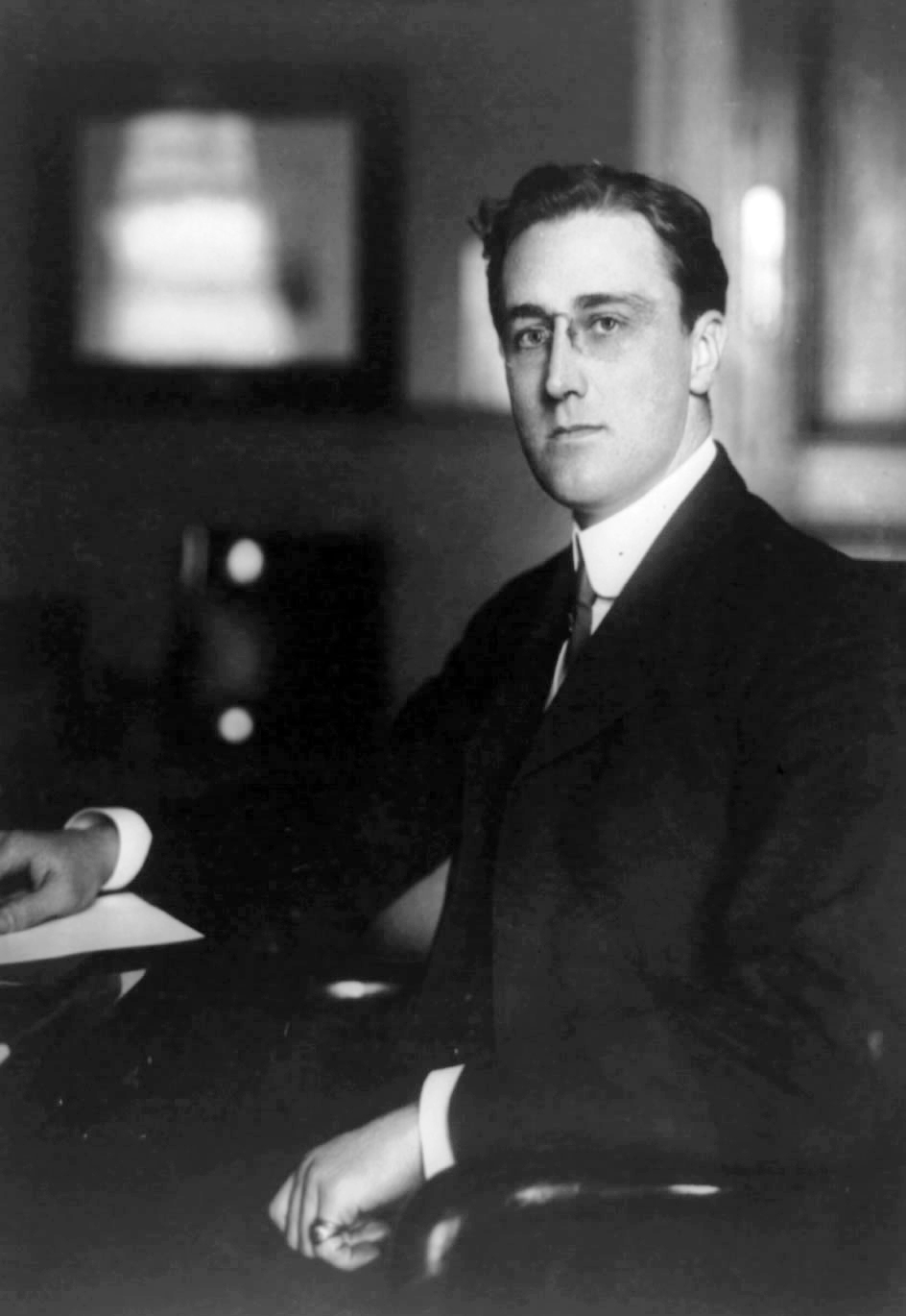 Franklin Delano Roosevelt, three-quarter length portrait, seated, facing left as Asst. Sect. of the Navy.